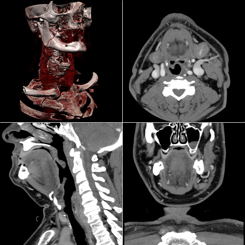 Typical screen layout of workstation software used for reviewing multi-detector CT studies. Clockwise from top-left: Volume rendering overview, axial slices, coronal slices, sagittal slices. A study may consist of several hundred slices which the user can scroll through. Images are usually acquired by the scanner in the 'axial' plane. The workstation reconstructs coronal, sagittal or oblique images on demand. Although visually very appealing, the volume rendering is often of limited diagnostic value, and requires substantial computer resources. Qualitative and quantitative information tends to be more accessible on the cross-sectional images, and many operators prefer to forgo the volume rendering for an oblique cross-sectional series, or a duplicate series displayed with different window settings. Sophisticated workstation software may include curved-plane cross-sectional reconstructions (which is able to 'straighten' a meandering blood vessel so that accurate measurements can be made), and image segmentation tools (e.g. for semi-automatic calculation of coronary artery calcium content).